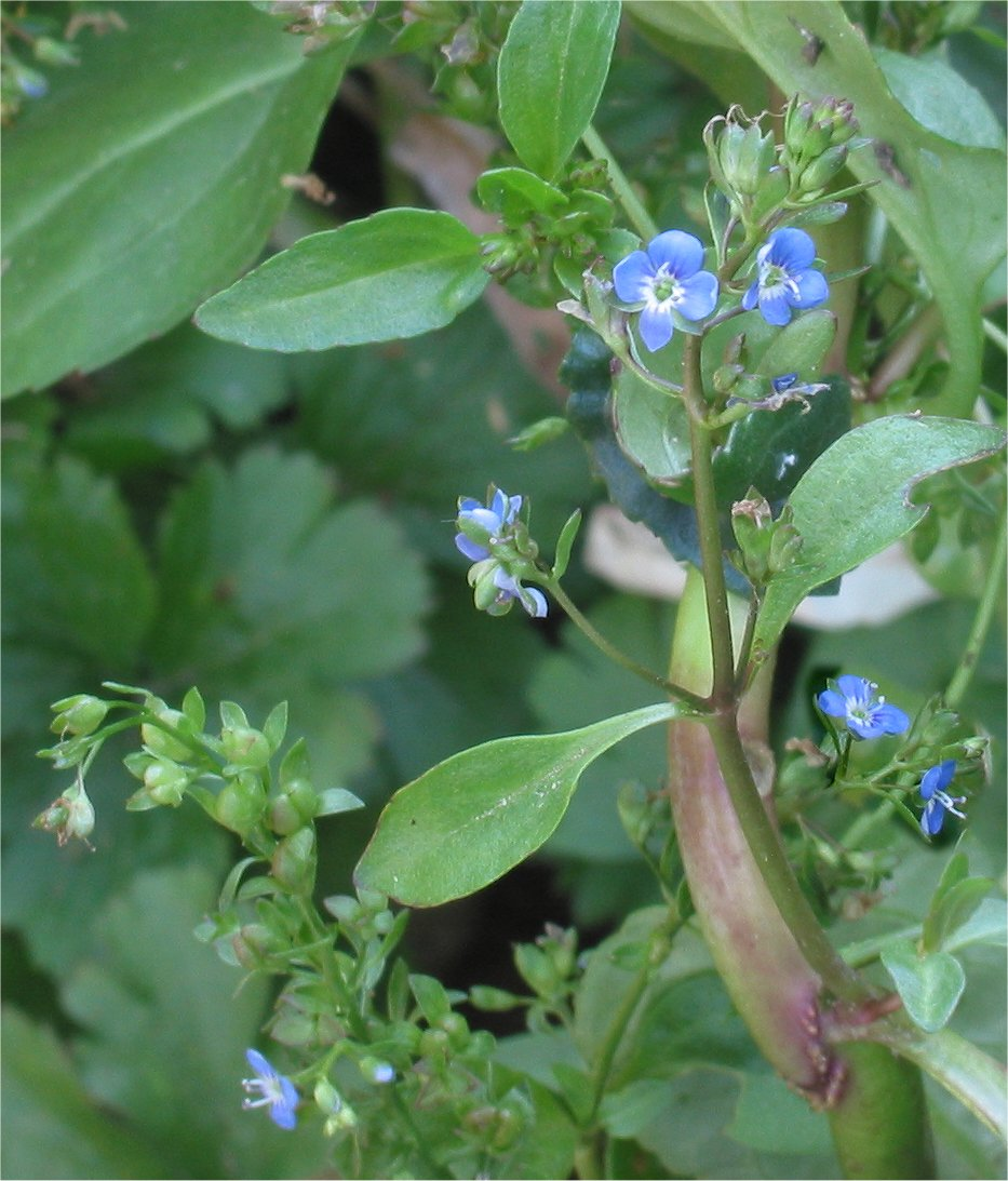 Veronica beccabunga inflorescens